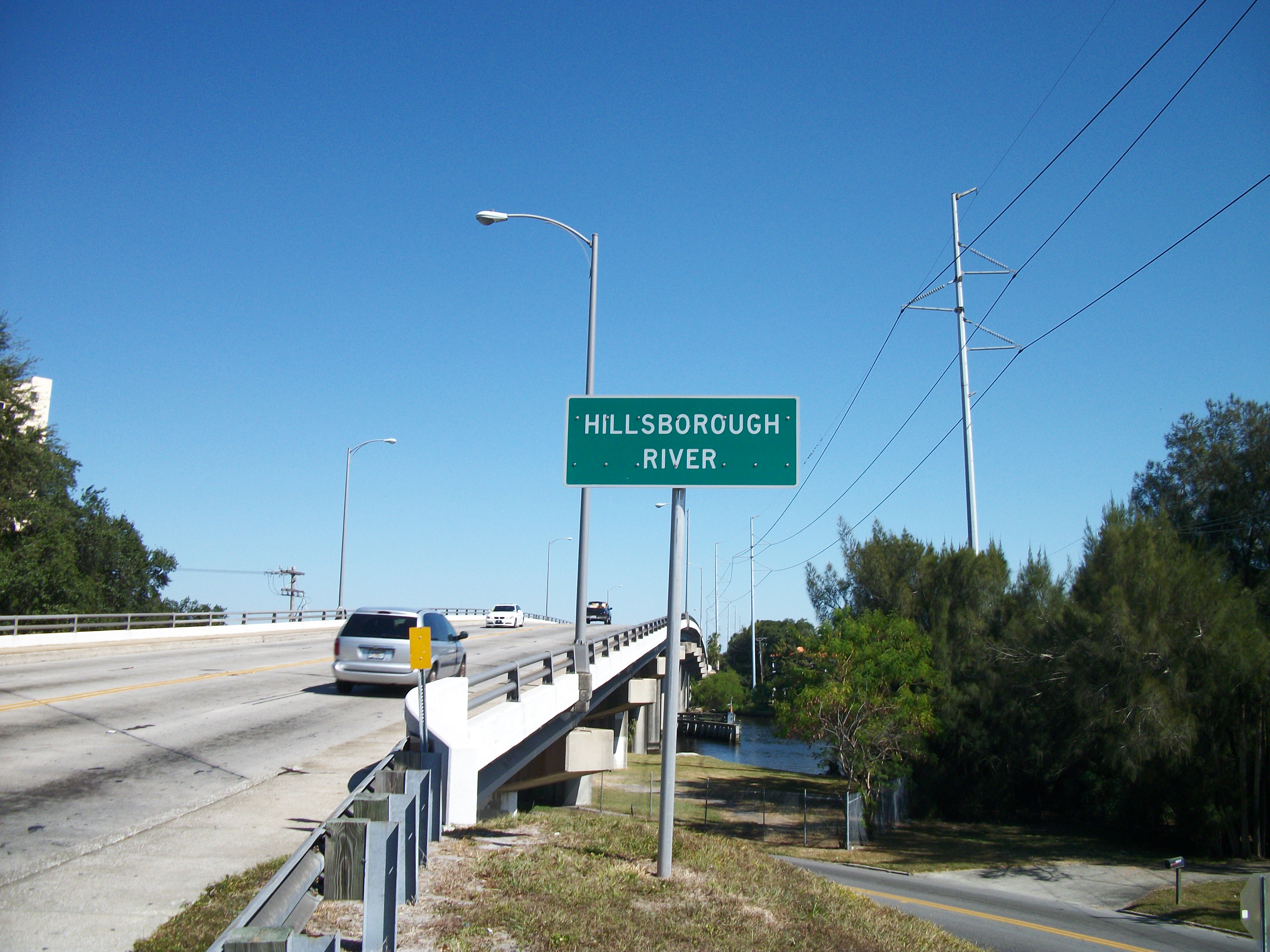 Eastbound sign for the Hillsborough River on Florida State Road 574 as it crosses the Paul H. Smith Bridge in Tampa, Florida. Taken from the embankment while my car was running and parked in a shopping center at the foot of the bridge.